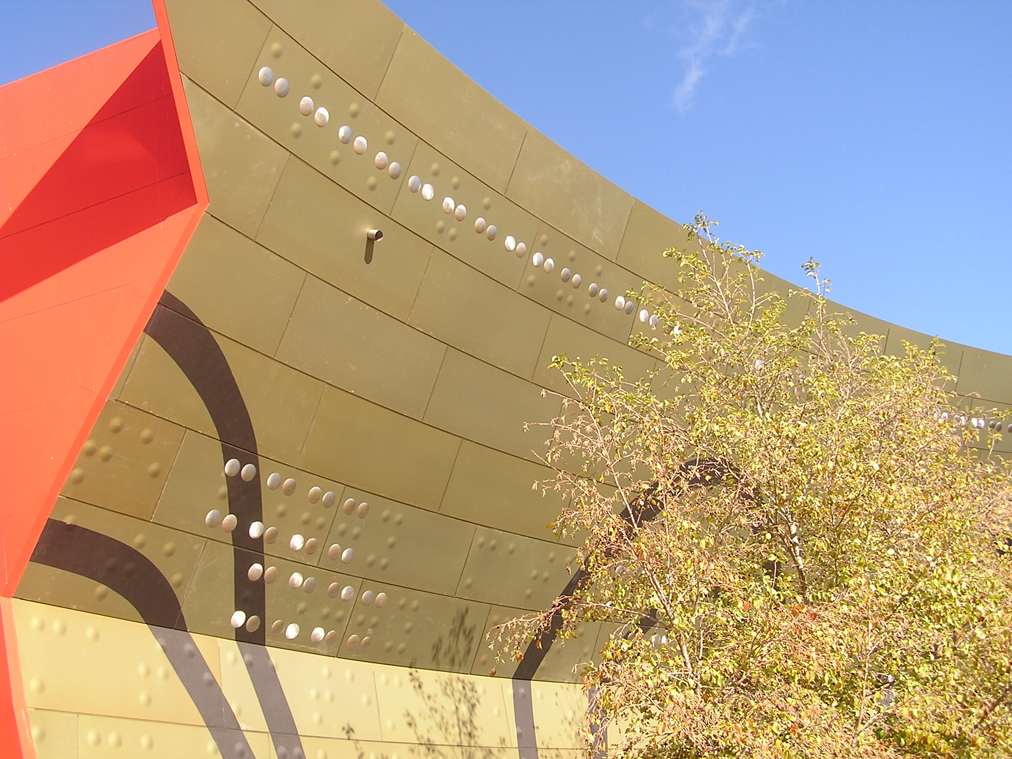 Words inscribed on the exterior of the National Museum of Australia using braille but obscured by placement of silver coloured discs